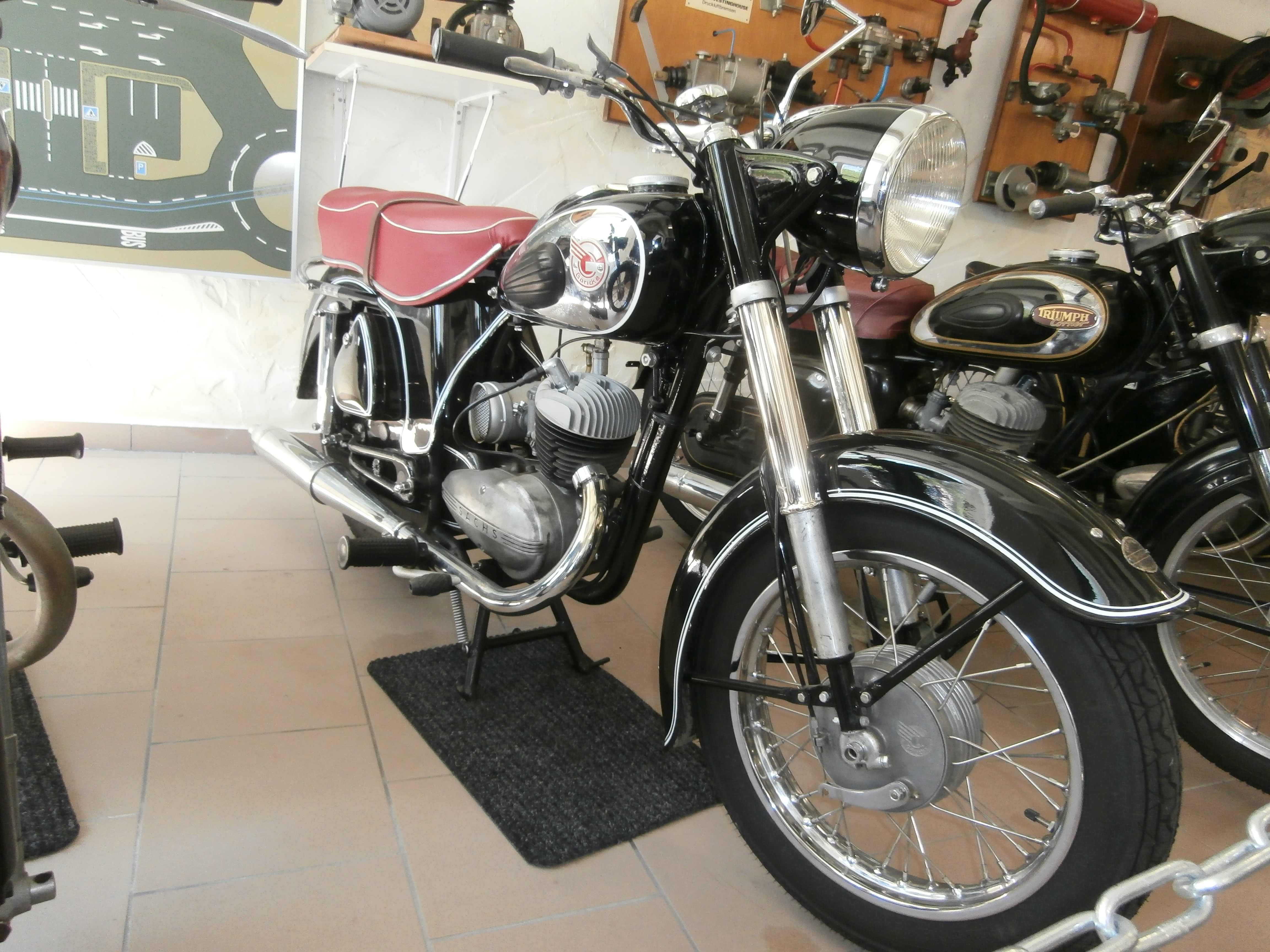 Göricke 175 SF motorcycle 1954